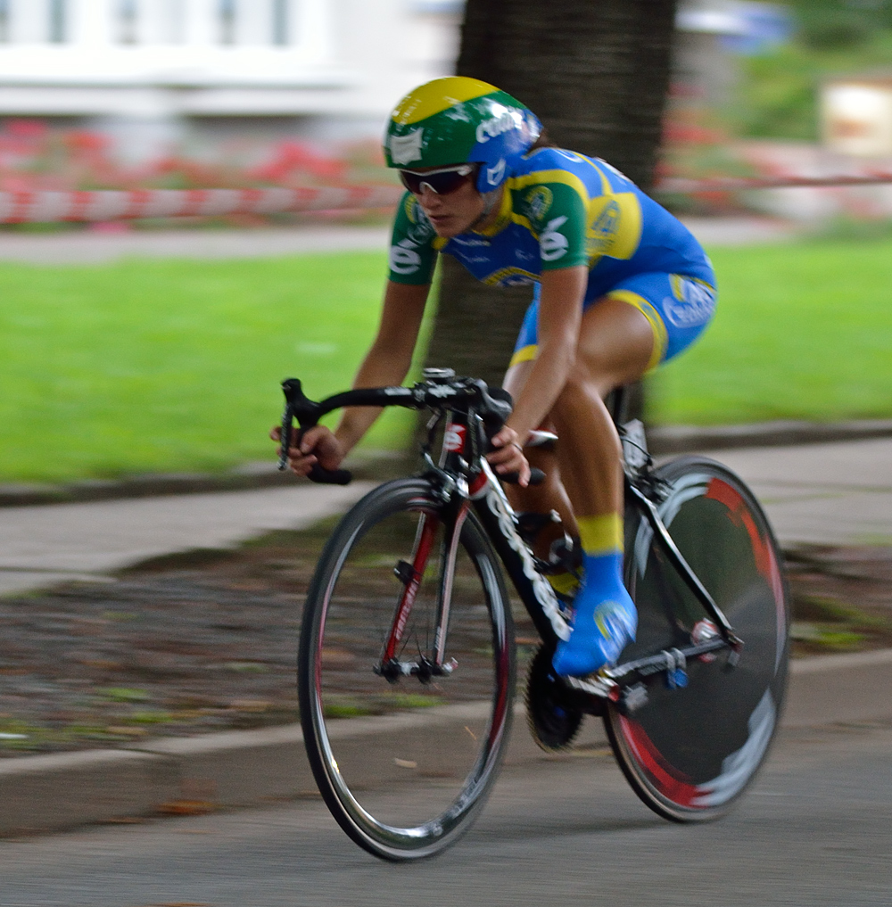 Elizabeth Armitstead from the AA Drink-leontien.nl team during the Women's Tour of Thuringia 2012 in Zwickau, Germany.